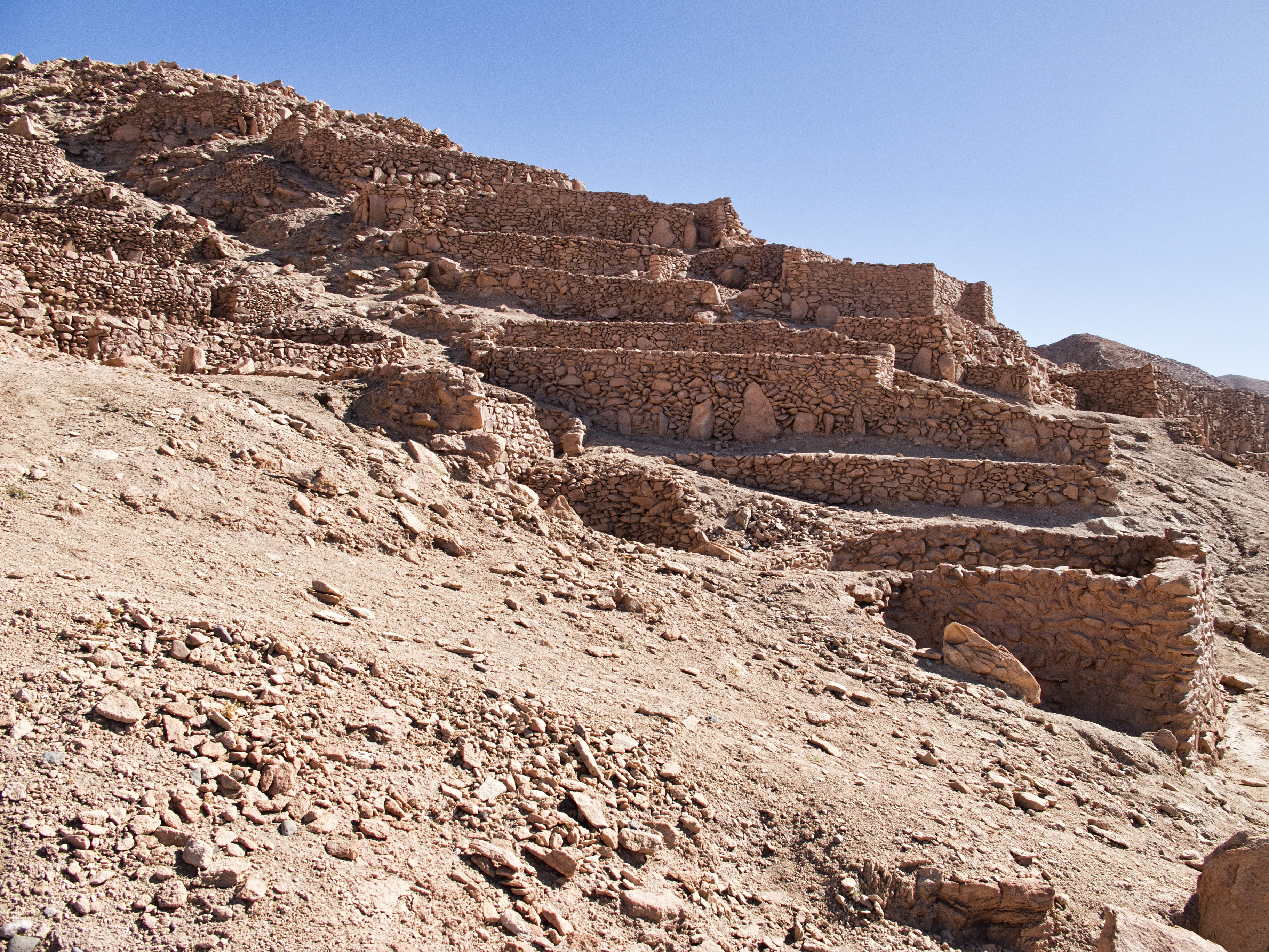 The ruins of Pukará de Quitor, a 12th Century fortress overlooking the San Pedro River valley where indigenous forces attempted to hold off conquistador Pedro de Valdivia and the Spanish in the 1540’s. On Google Earth: Pukará de Quitor 22°53'28.34"S, 68°12'53.45"W